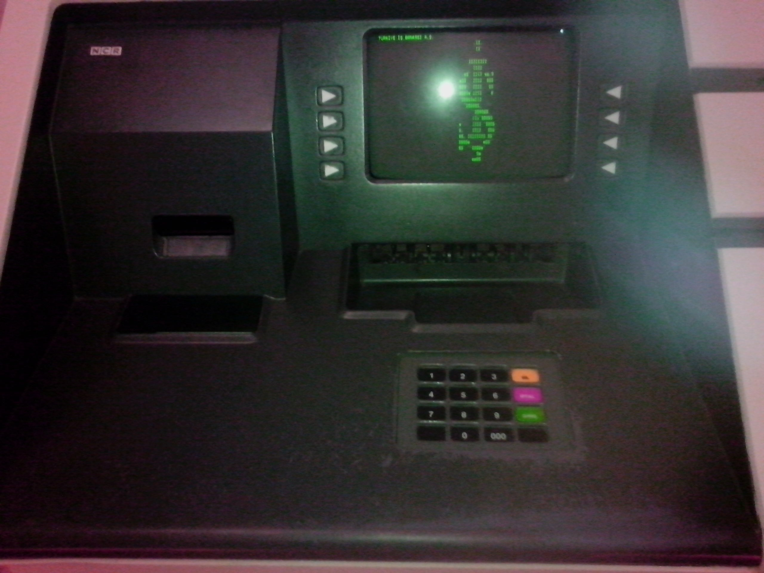 First ATM in Turkey- 1987 model ATM. An ATM used in 1987 Old ATM. İş Bankası Müzesi, Eminönü